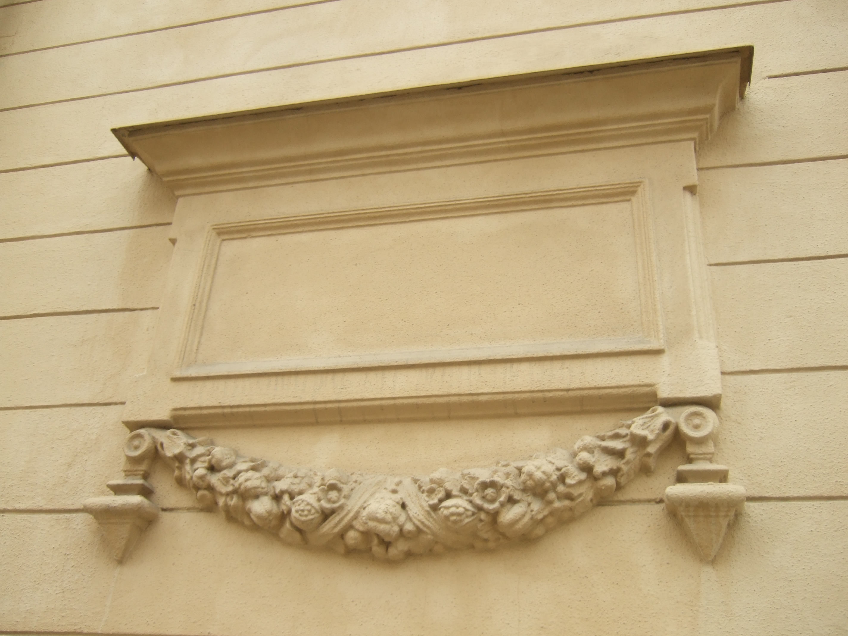 The house of "Sundsvalls Teater" at Köpmangatan 11 in Sundsvall, canvas with festoon on north wall